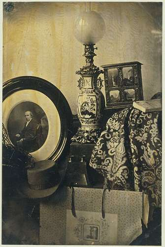 Still life with a photographic portrait of the photographer, a stereoscope and portfolio of photographic paper